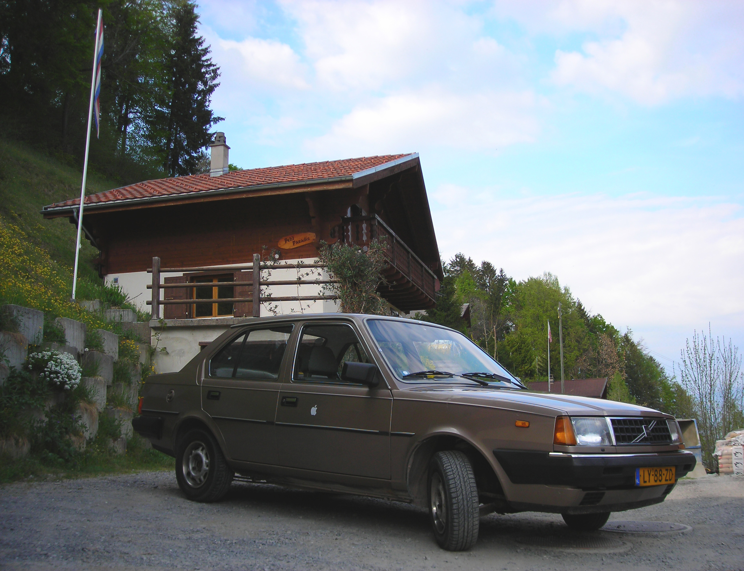 Metallic beige 1985 Volvo 360, here photographed in 2007 in an Alpine village.